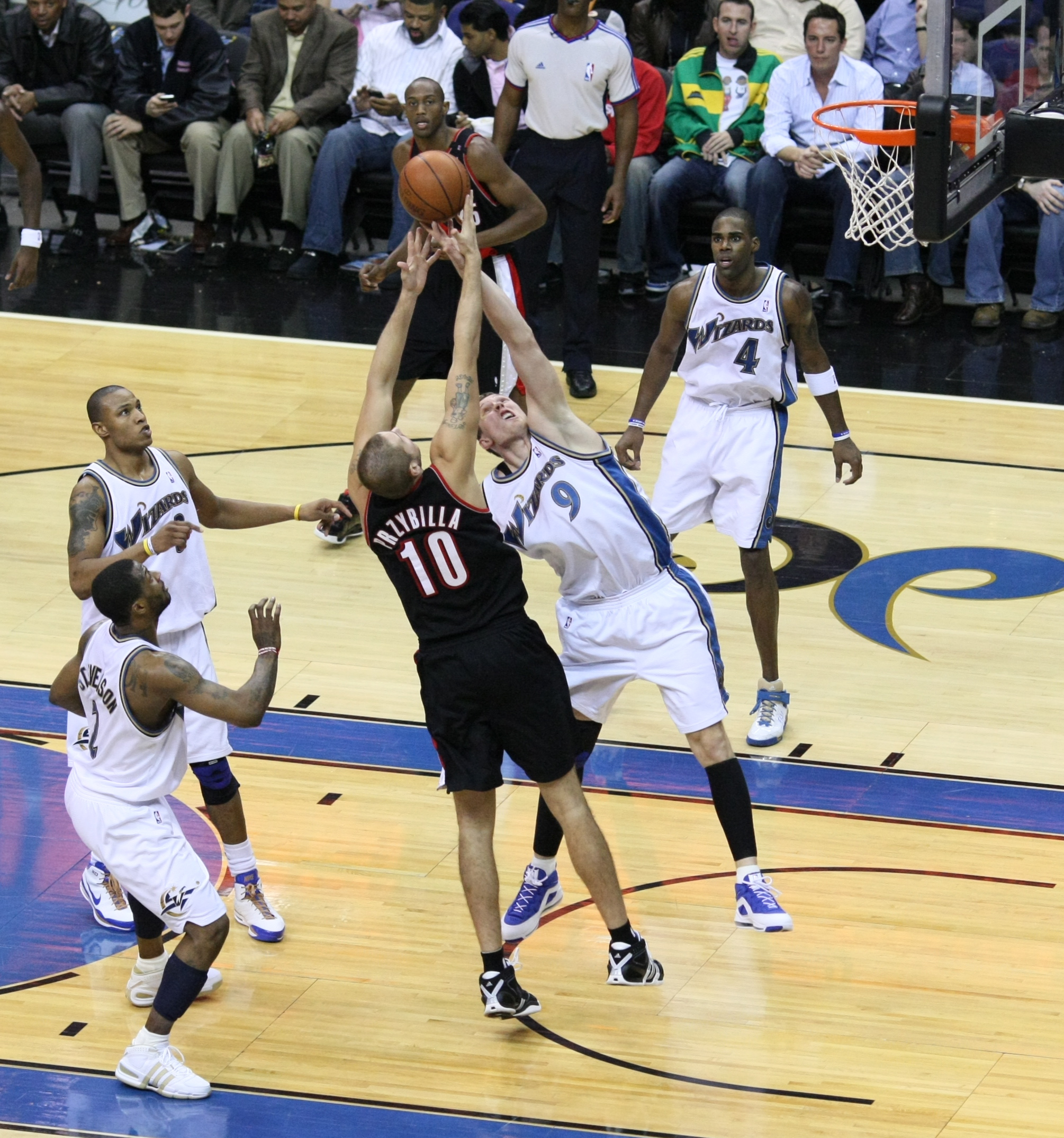 Joel Przybilla and Darius Songaila going for a rebound.